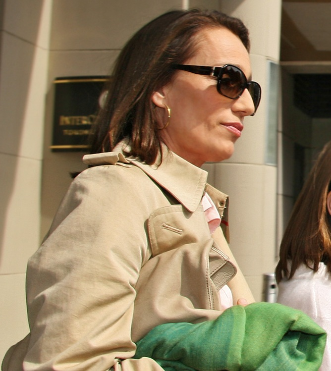 Kristin Scott Thomas at the 2008 Toronto International Film Festival